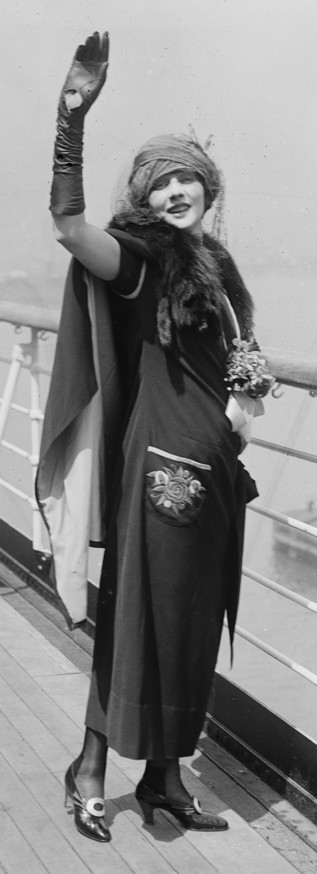 Betty Blythe (crop)